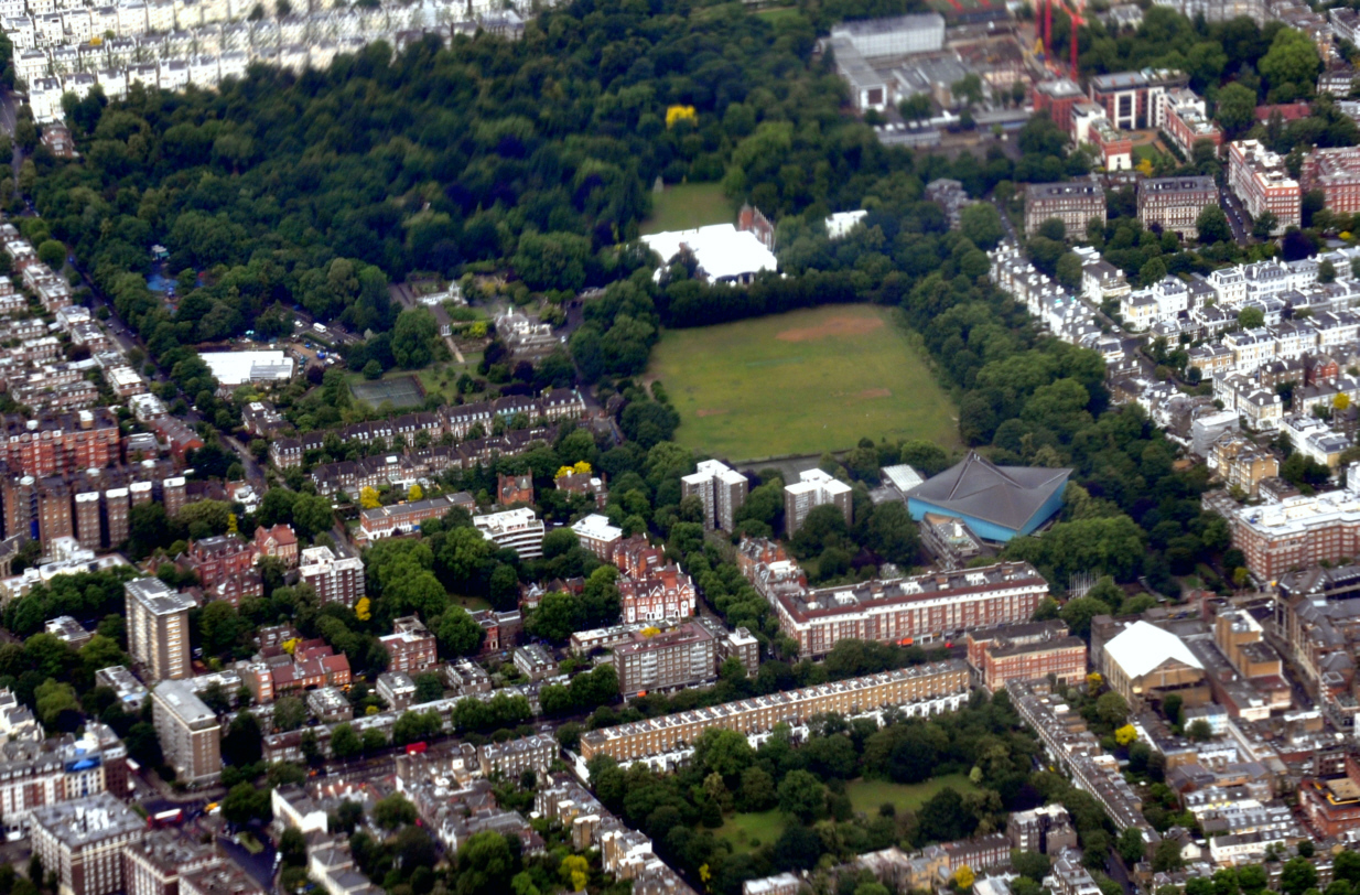 Aerial photograph of Holland Park, London